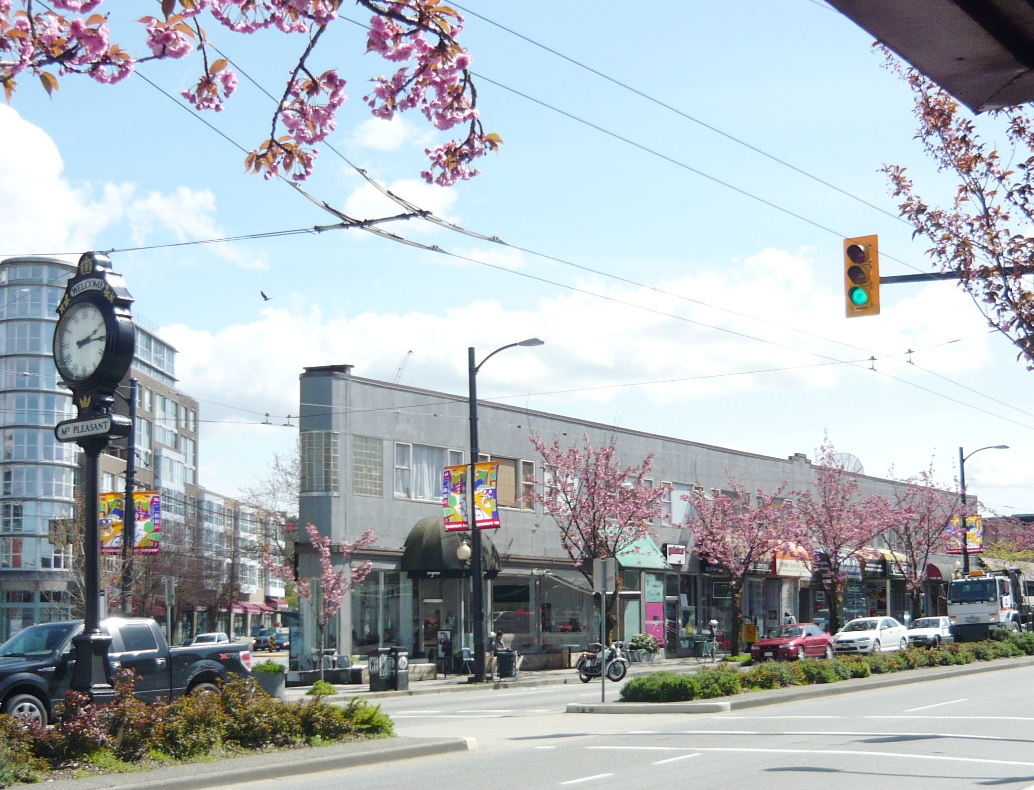 Triangle Building (built 1947, previously "Wosk Block"), 2414 Main Street at Kingsway, Vancouver, British Columbia, Canada.